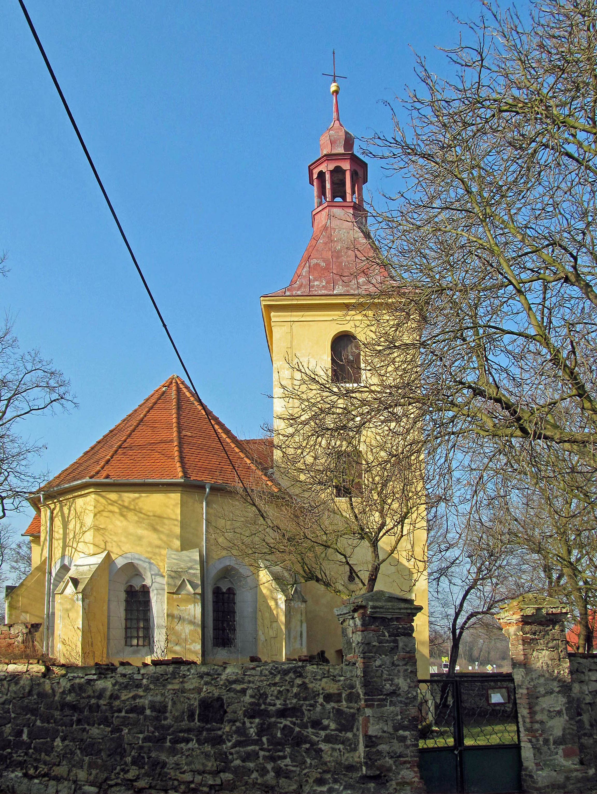 Saint Martin Church in Břvany from east